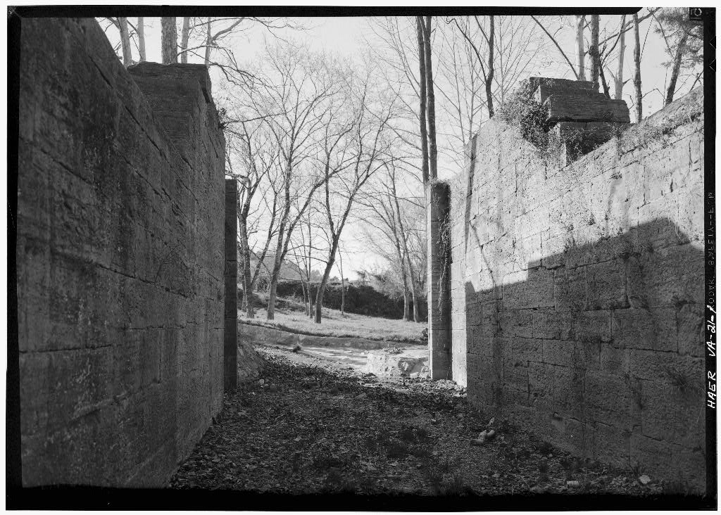 Photographic view from the southeast of the inside of the Ben Salem Lock running northwest on the Maury River in the vicinity of Lexington, Rockbridge County, Virginia. The Ben Salem Lock was part of the James River and Kanawha Canal. Historic American Buildings Survey, The Library of Congress, Washington, D. C.